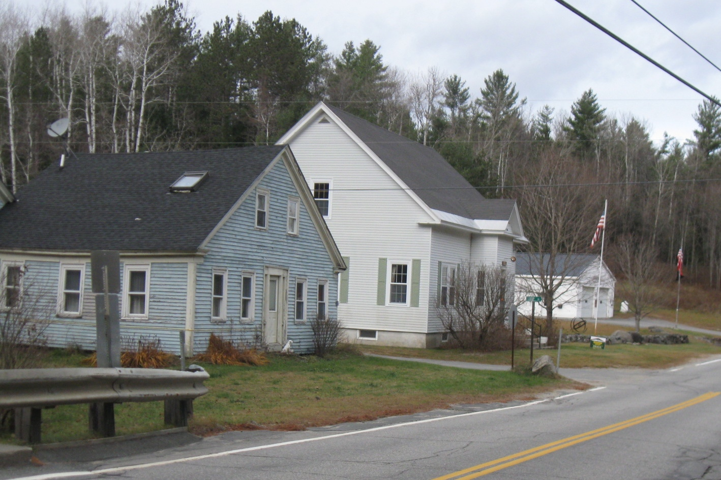 Three buildings comprising the entire town center of Easton, New Hampshire. Town Hall is in the middle.